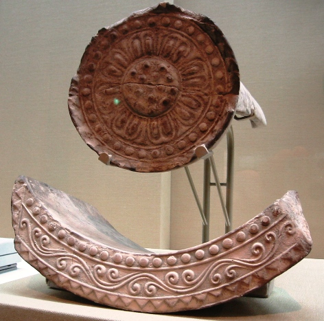 Tokyo National Museum. Personal photograph, 2004.